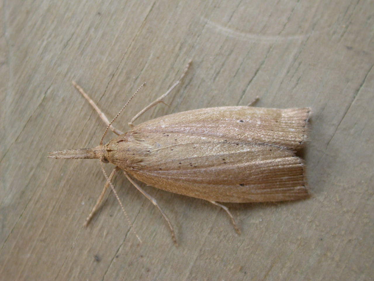 Chilo phragmitella, Gastes, Landes, SW France, 6/7 July 2003